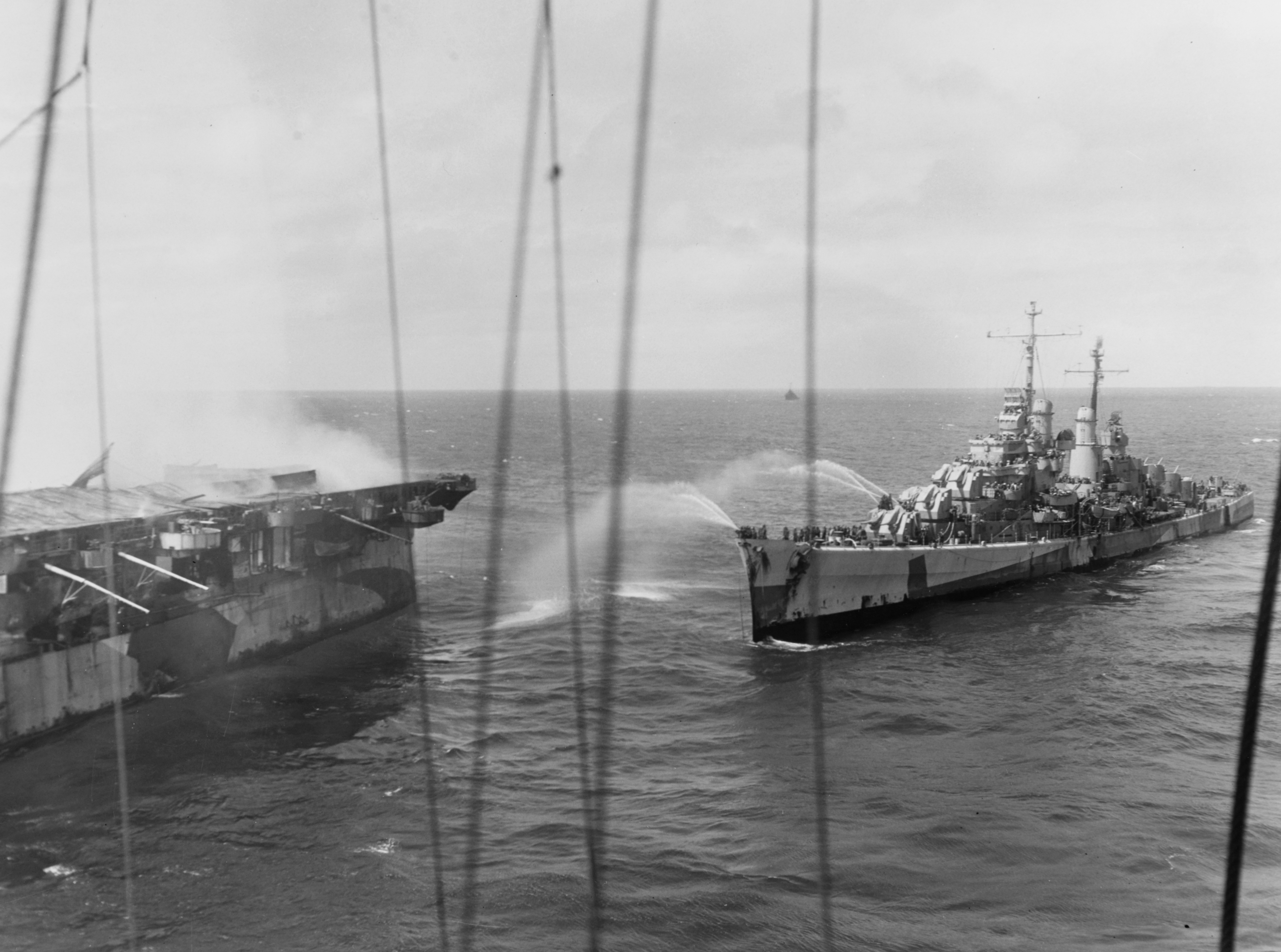 The U.S. Navy light cruiser USS Reno (CL-96) comes alongside the burning light aircraft carrier USS Princeton (CVL-23) to assist in fighting fires, 24 October 1944. Princeton had been hit during a Japanese air attack earlier in the day.